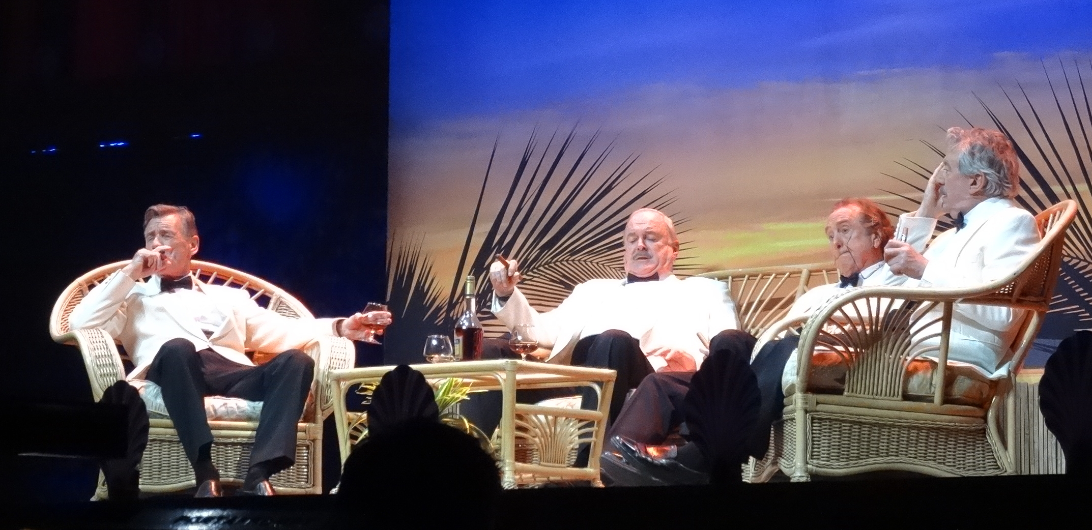 Photo from "The Four Yorkshiremen sketch", 2014-07-02. From left: Michael Palin, John Cleese, Eric Idle and Terry Jones.